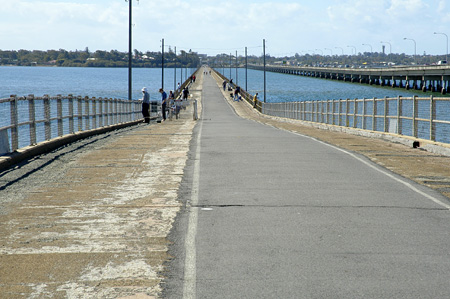 Hornibrook Bridge in Australia